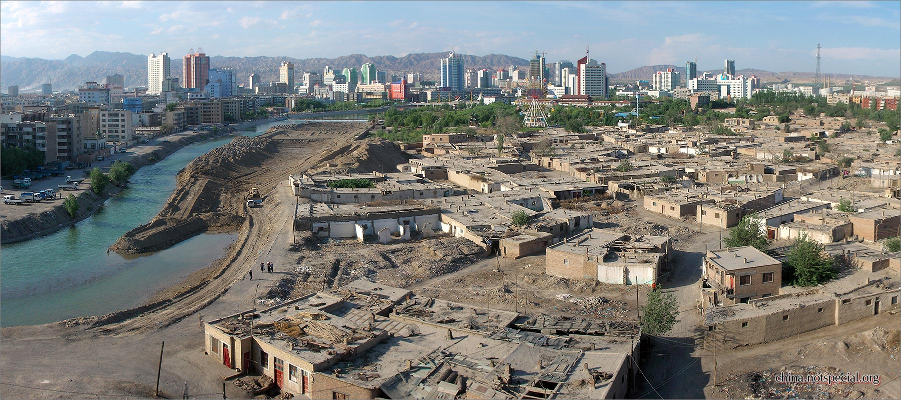 Another panorama of downtown Korla, Xinjiang. May 2007. Courtesy: The Opposite End of China (